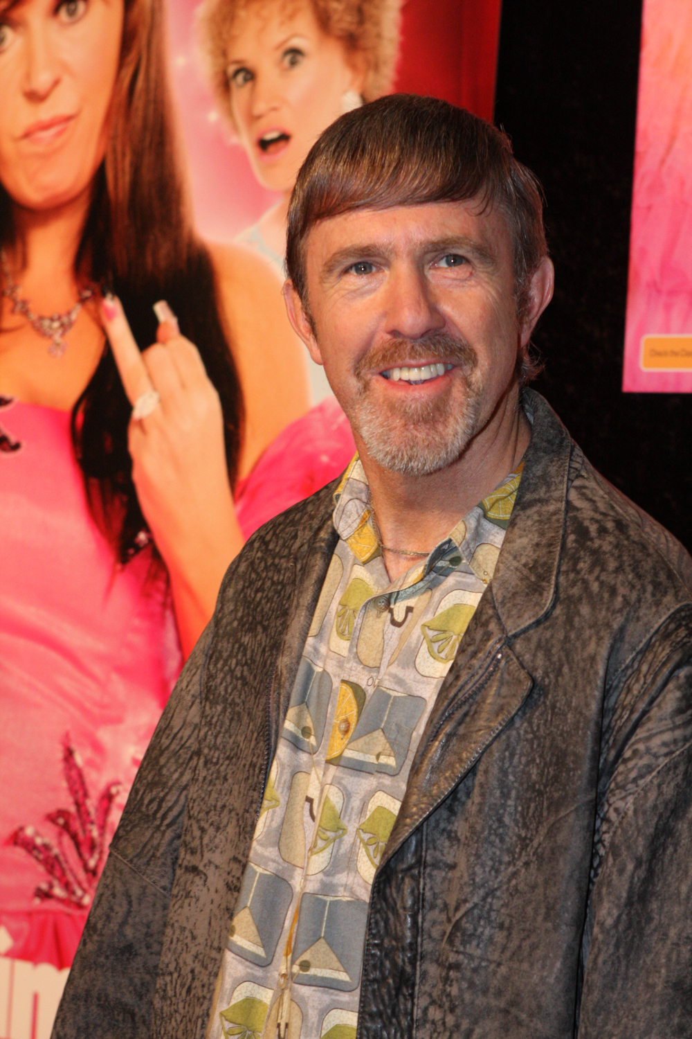 Kath & Kimderella movie premiere at Entertainment Quarter; Sydney, Australia Tonight the Australian "foxy moron" (Kath & Kim lingo) film enjoyed its Australian premiere at Entertainment Quarter in the shadow of Fox Studios Australia, Moore Park. The Kath & Kim franchise is well established and its usually a case of you either love them or hate them. Tonight there were hundreds of lovers of course. Some passionate fans dressed up as their idols - including some grown men in K&K drag. The girls at the premiere switched in and out of character, as they often do in news media interviews. The Flick... Kath, Kim and the latter's daggy offsider, Sharon (Magda Szubanski) are soon shipped off to Papilloma, a bankrupt principality in Italy, where the monarch, King Javier (Rob Sitch) mistakes Kath for a wealthy noble and plans to seduce her, while his son fixates on Kim as a princess. Plot... Fountain Lakes’ foxiest ladies turn more than just heads when they go on an OS trip and end up being the centre of their very own fairytale. Starring: Jane Turner, Gina Riley, Magda Szubanski, Glenn Robbins & Peter Rowsthorn. Director: Ted Emery Kath & Kimderella opens nationally Thursday, September 6. Websites Kath & Kimderella official website Kath & Kim official website Roadshow Films Eva Rinaldi Photography Flickr Eva Rinaldi Photography Music News Australia